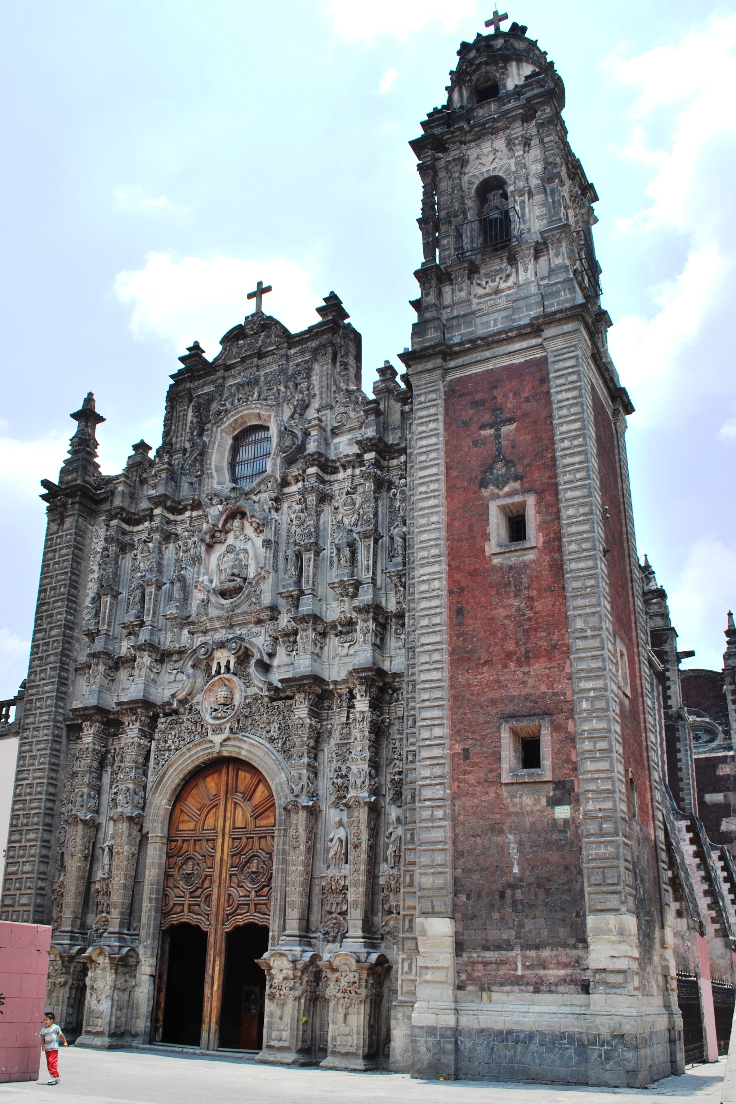 Facade of the La Santisima Church in the historic downtown of Mexico City